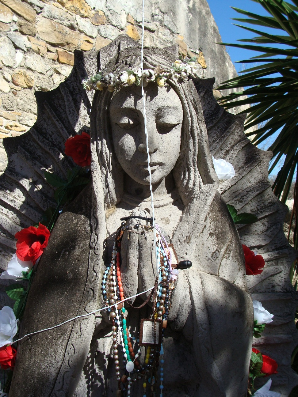 Mission San Juan, San Antonio, Texas